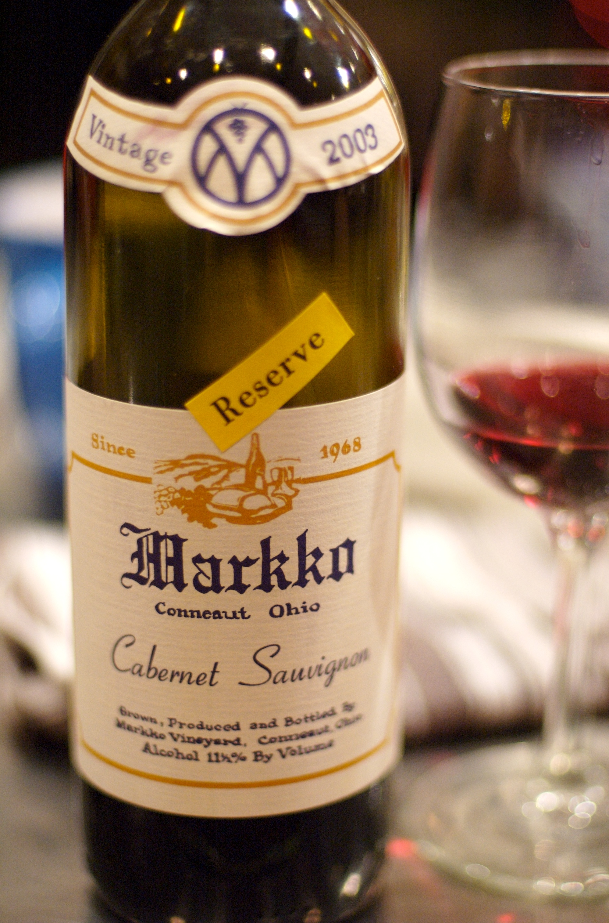 An Ohio Cabernet Sauvignon wine from Conneaut.